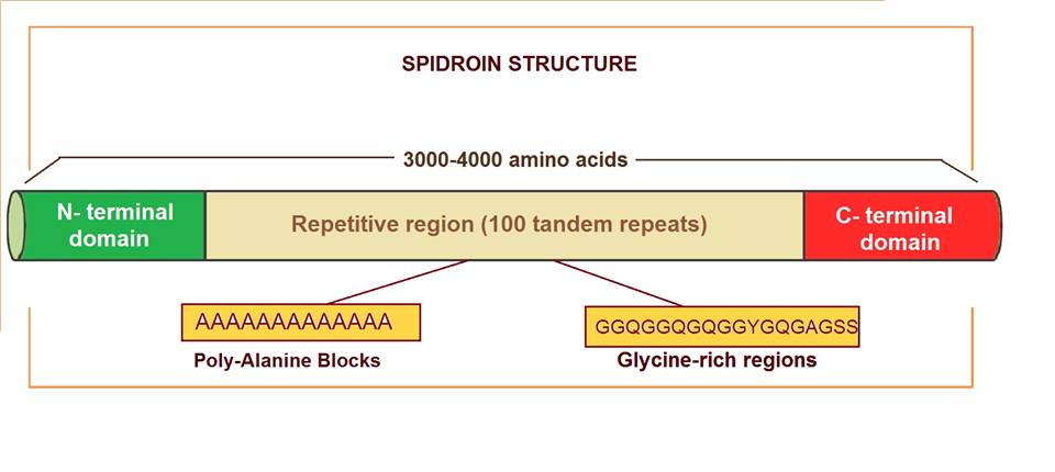 This is the primary structure of spidroin